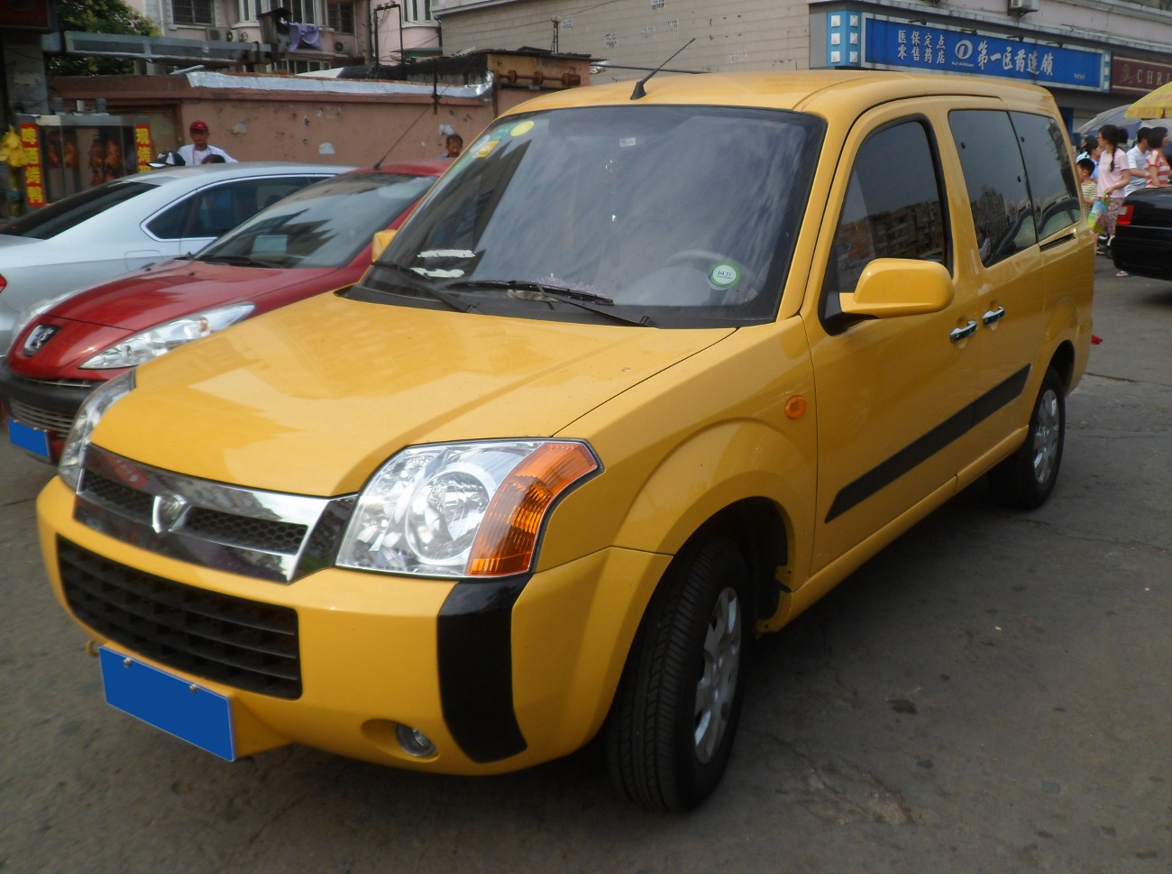 Foton Midi LWB photographed in Shanghai, China.